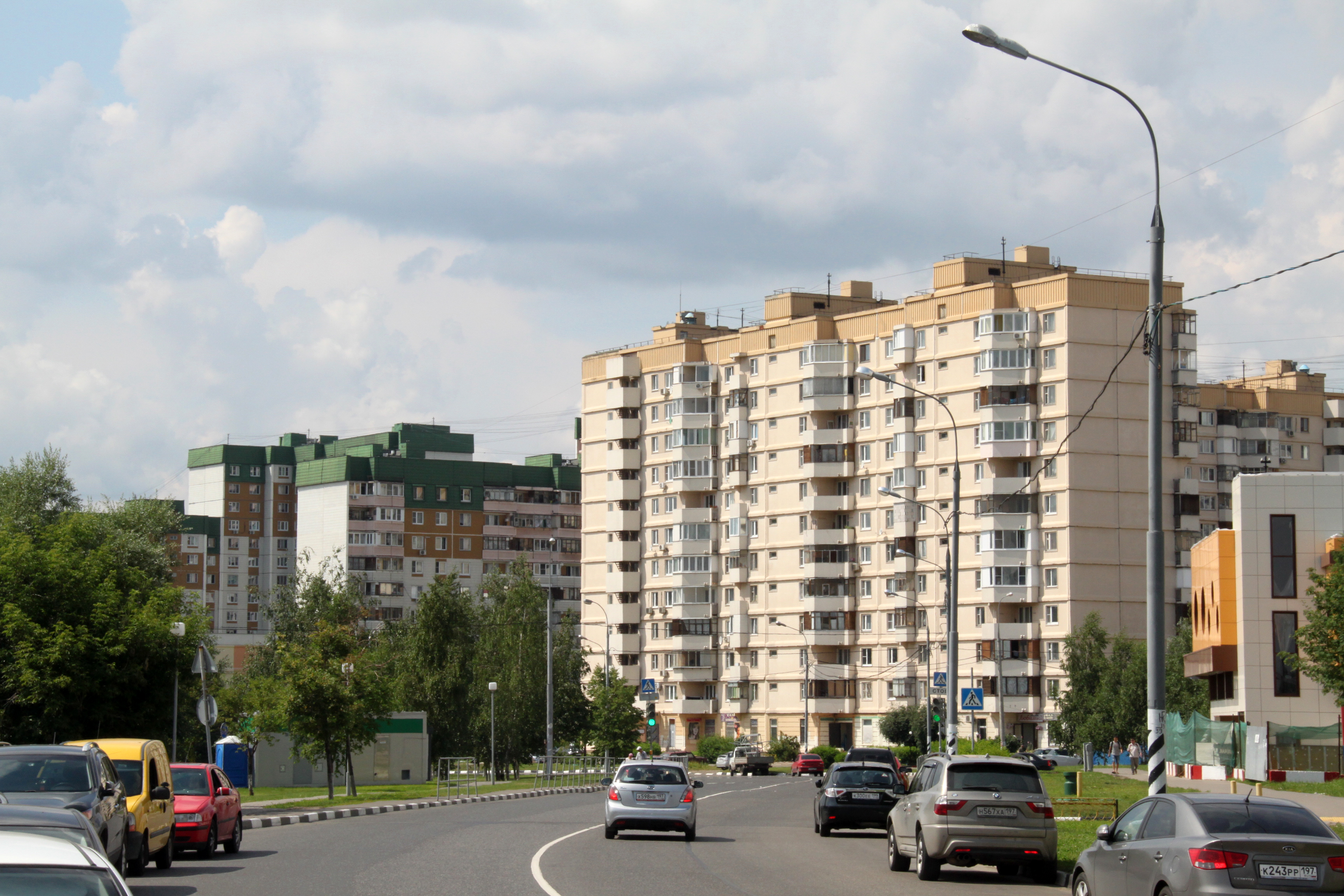 Apartment buildings on Brateyevsky passage, on the south of Moscow.